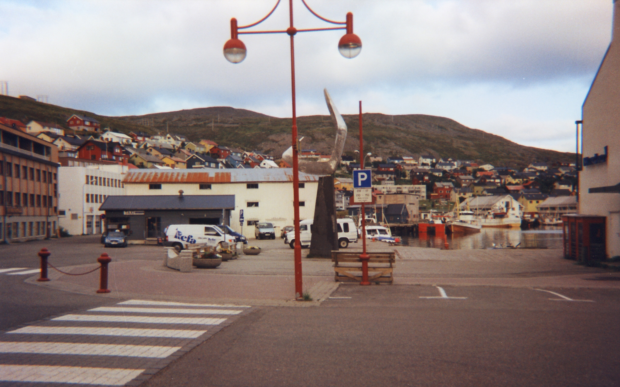 Honningsvåg, Norway